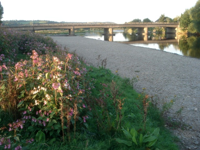 Bridge at Glasbury Carrying the A438 over the Wye.